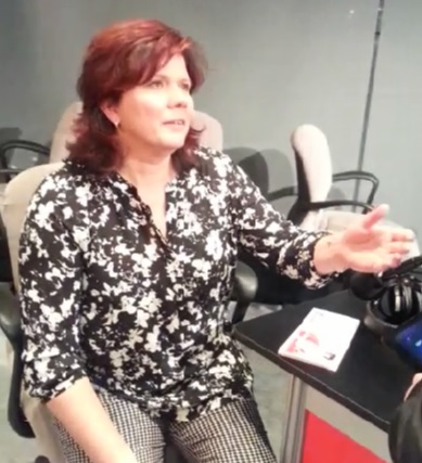 Marina Orsini photographed in Montreal, Quebec, Canada at the Salon du livre de Montréal 2016.